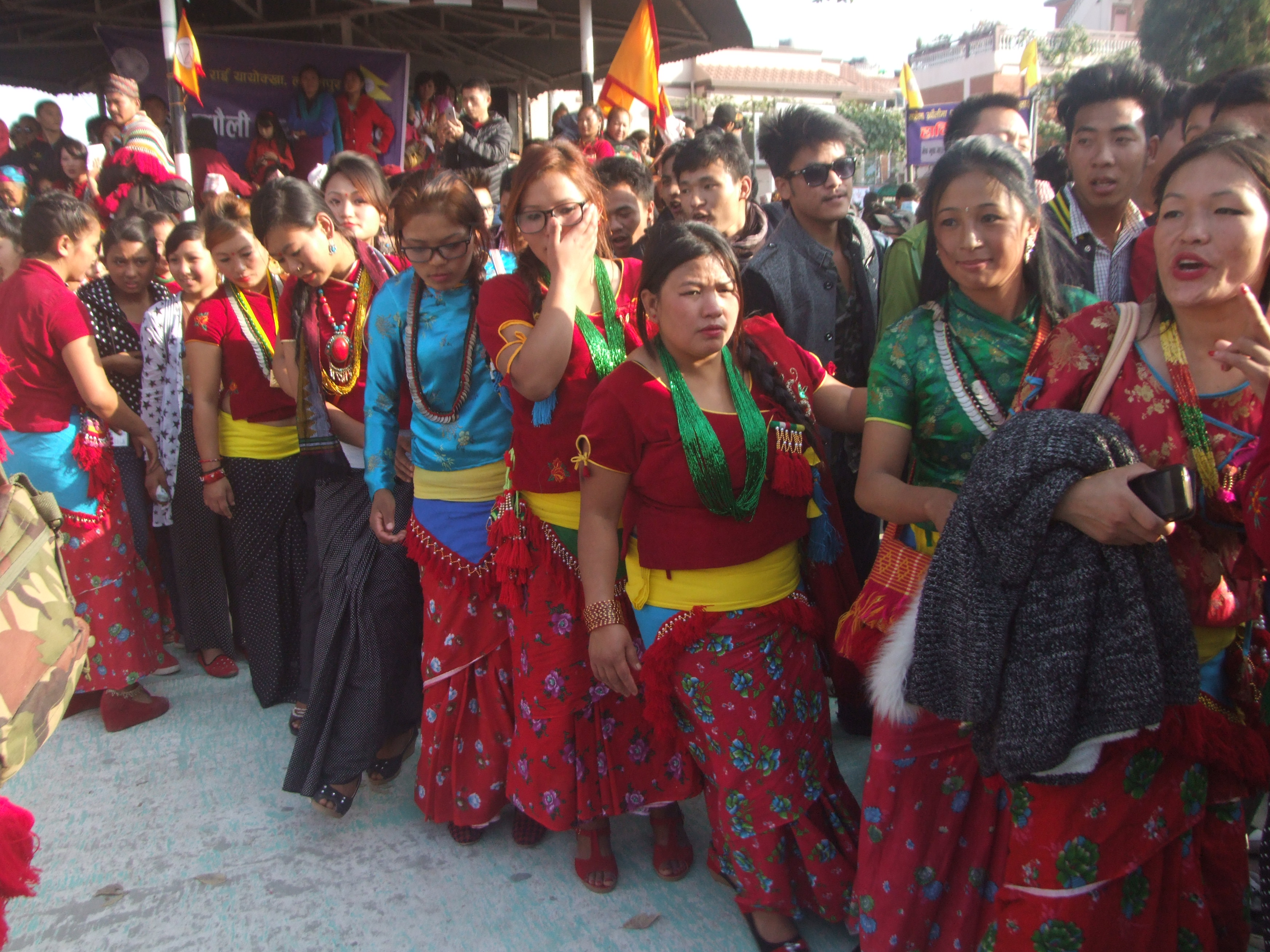 Sunuwar & Rai Udhauli at Kakhipot Lalitpur Nepal 6 December 2014